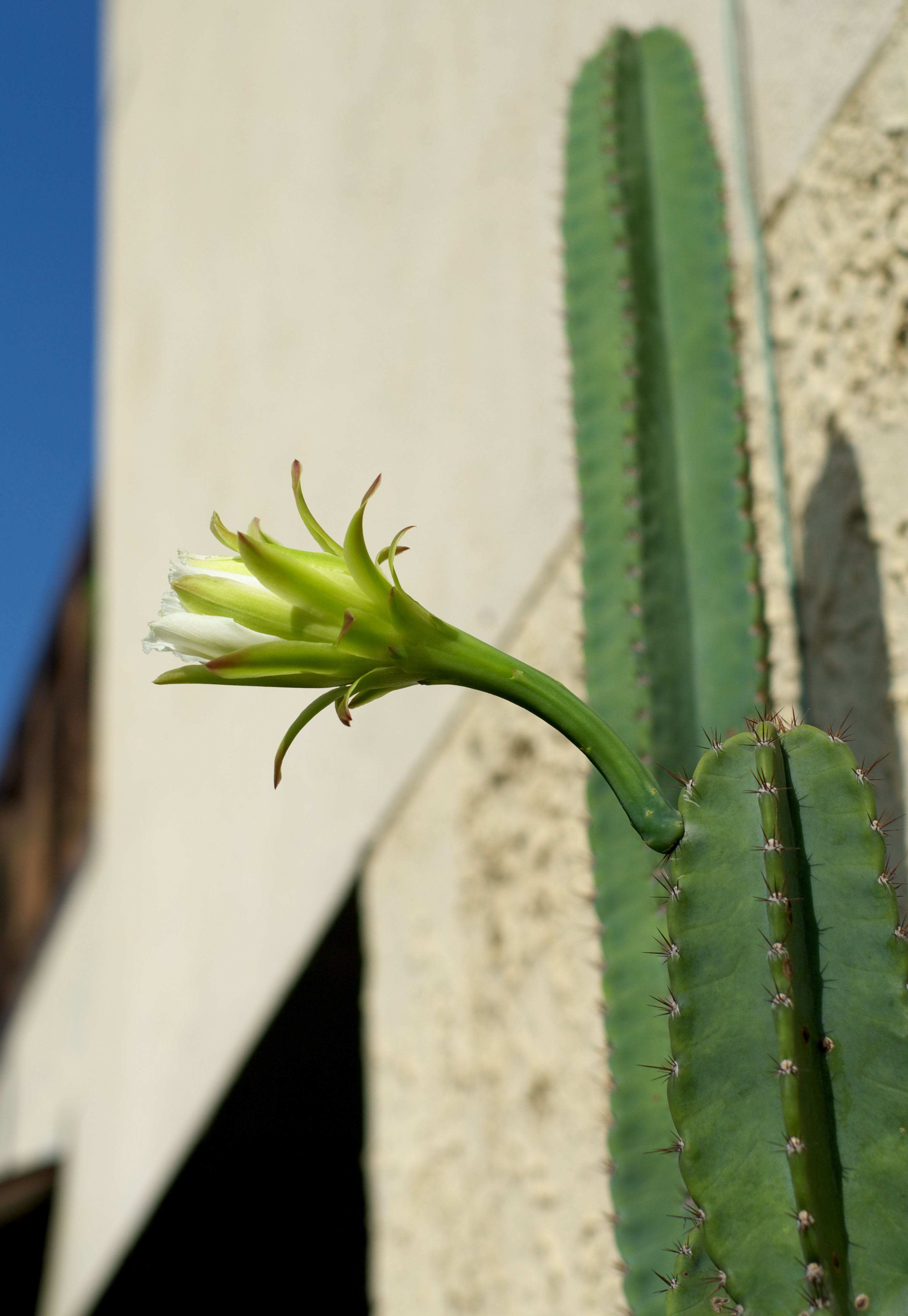 Cereus hexagonus View On Black